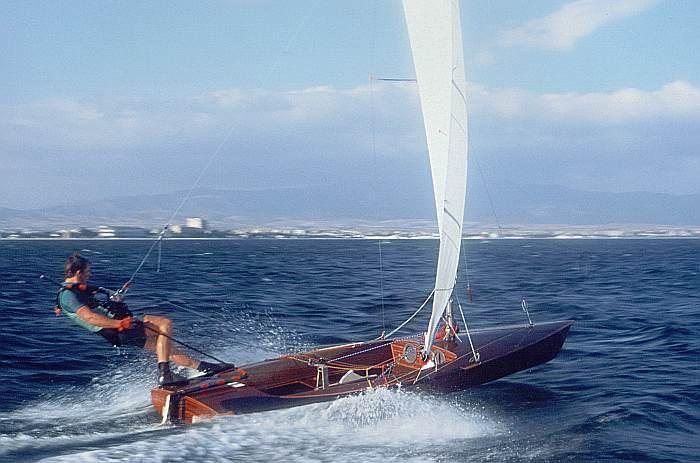 User:Gwicke sailing a Contender dinghy at the '98 Worlds.